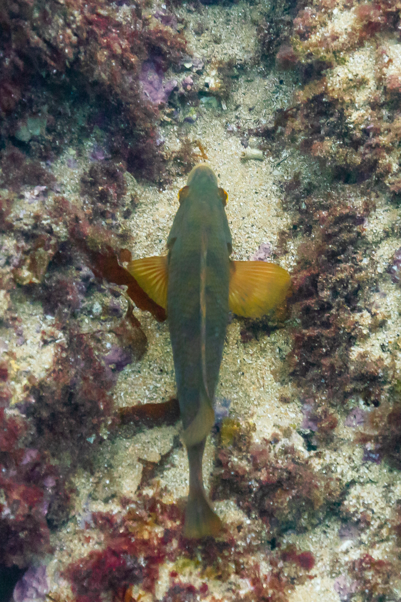 Brown wrasse (Labrus merula), Mouro Island, Santander, Spain